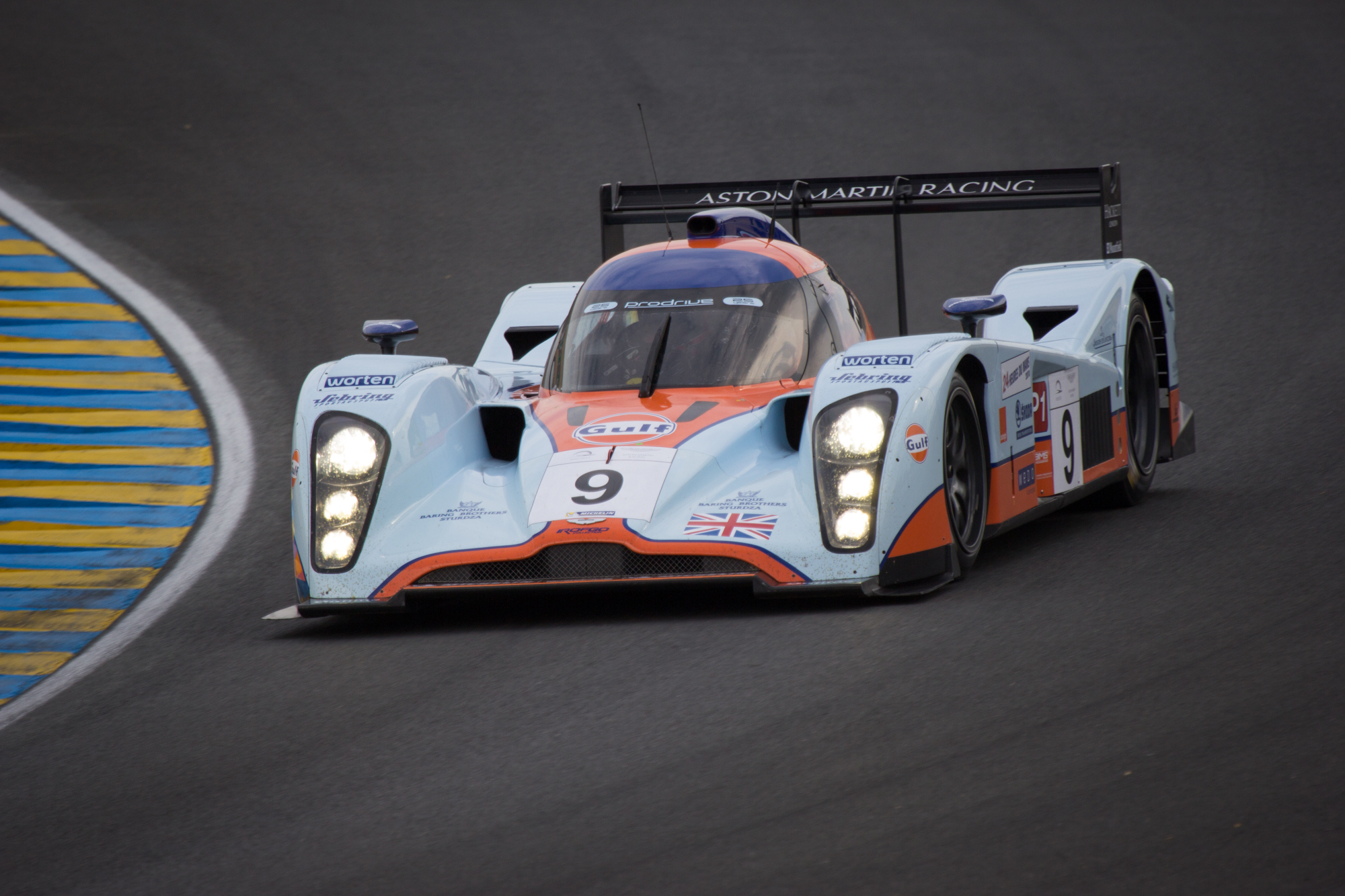 Aston Martin DBR1-2